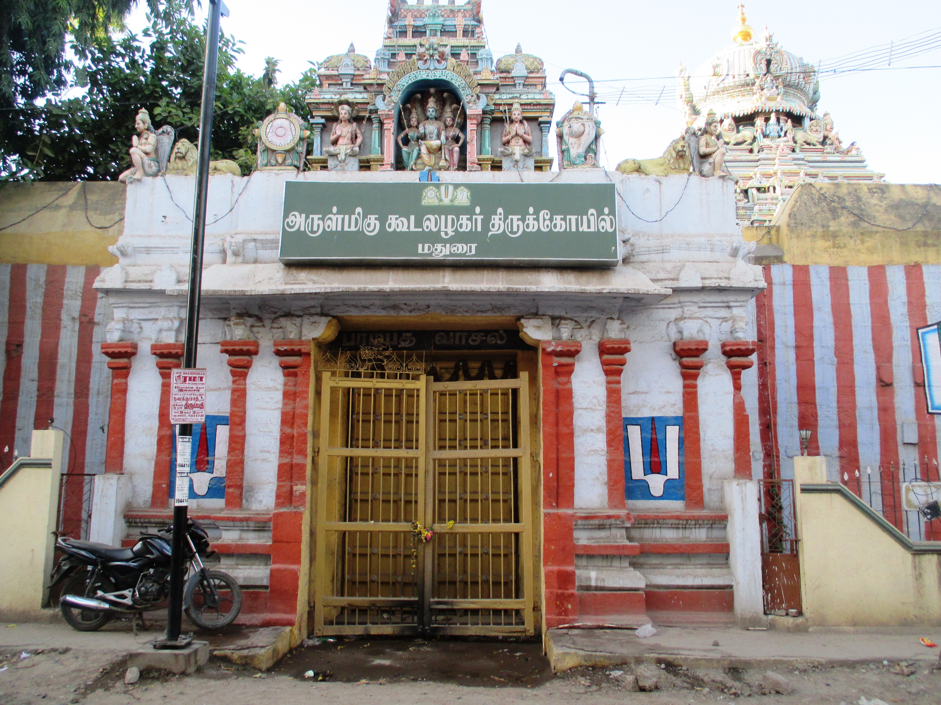 Koodazhagar